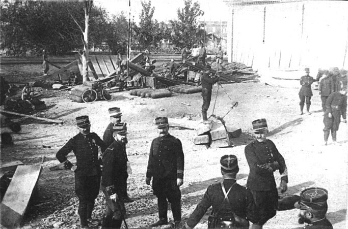 Image from La Chine à terre et en ballon.